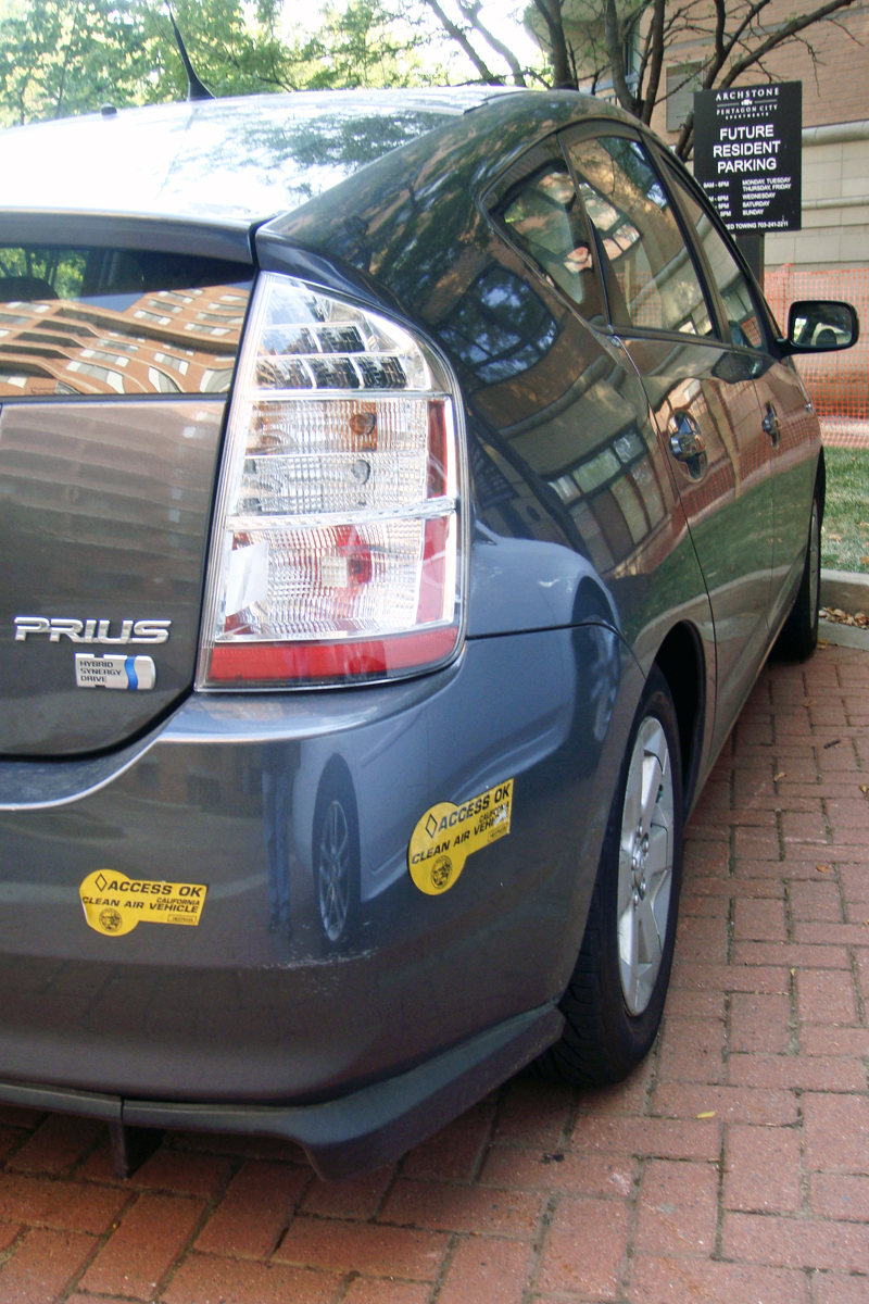 Toyota Prius with California's bumper stickers used to identify clean air vehicles to gain free access to HOV lanes